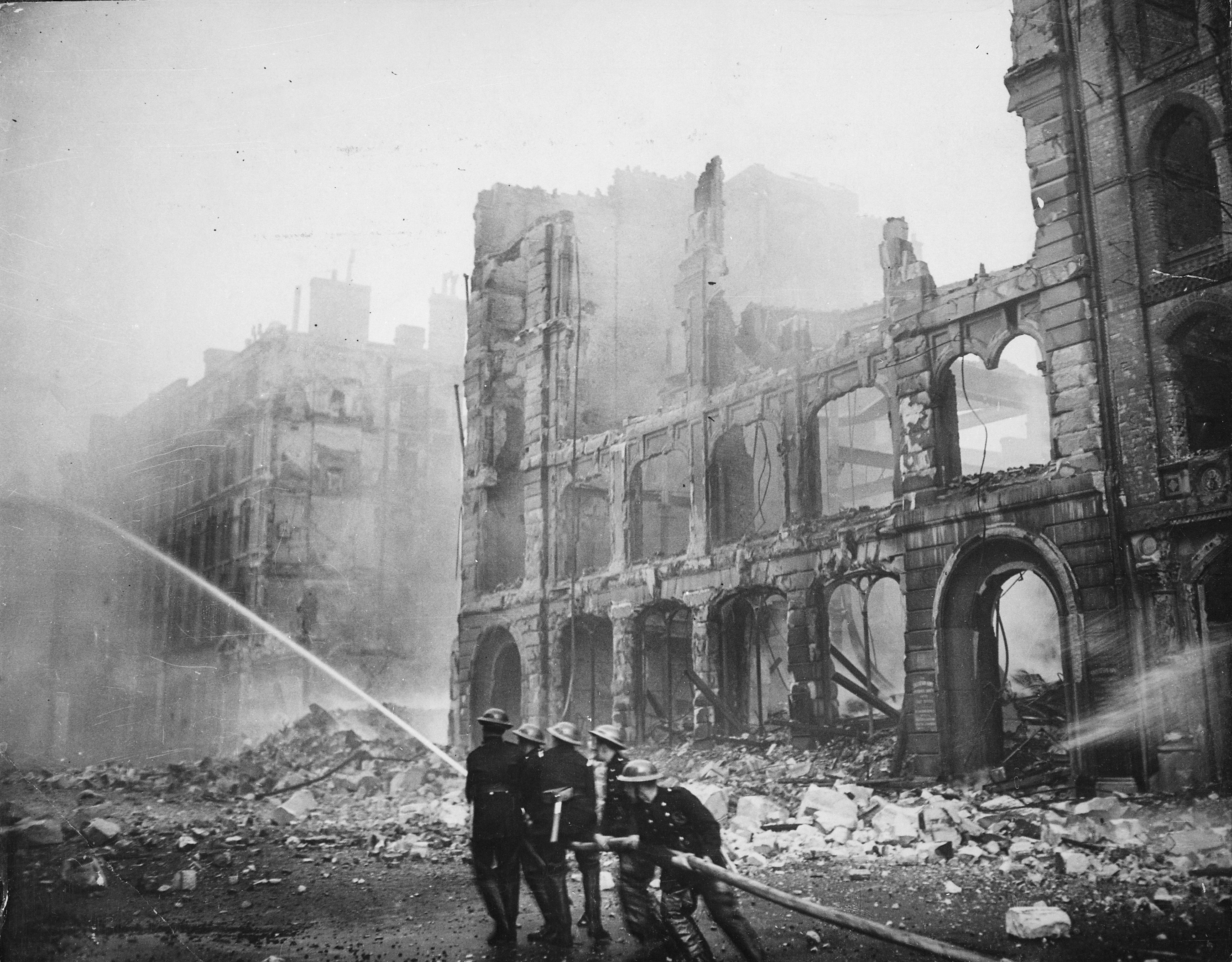 Firefighters putting out a blaze in London after an air raid during The Blitz in 1941.